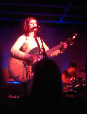 Frances McKee of the Vaselines playing live at the Doug Fir Lounge in Portland, OR, May 13, 2009.